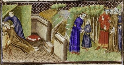 illustration of the story of Robert the Devil from preface to Chronique de Normandie